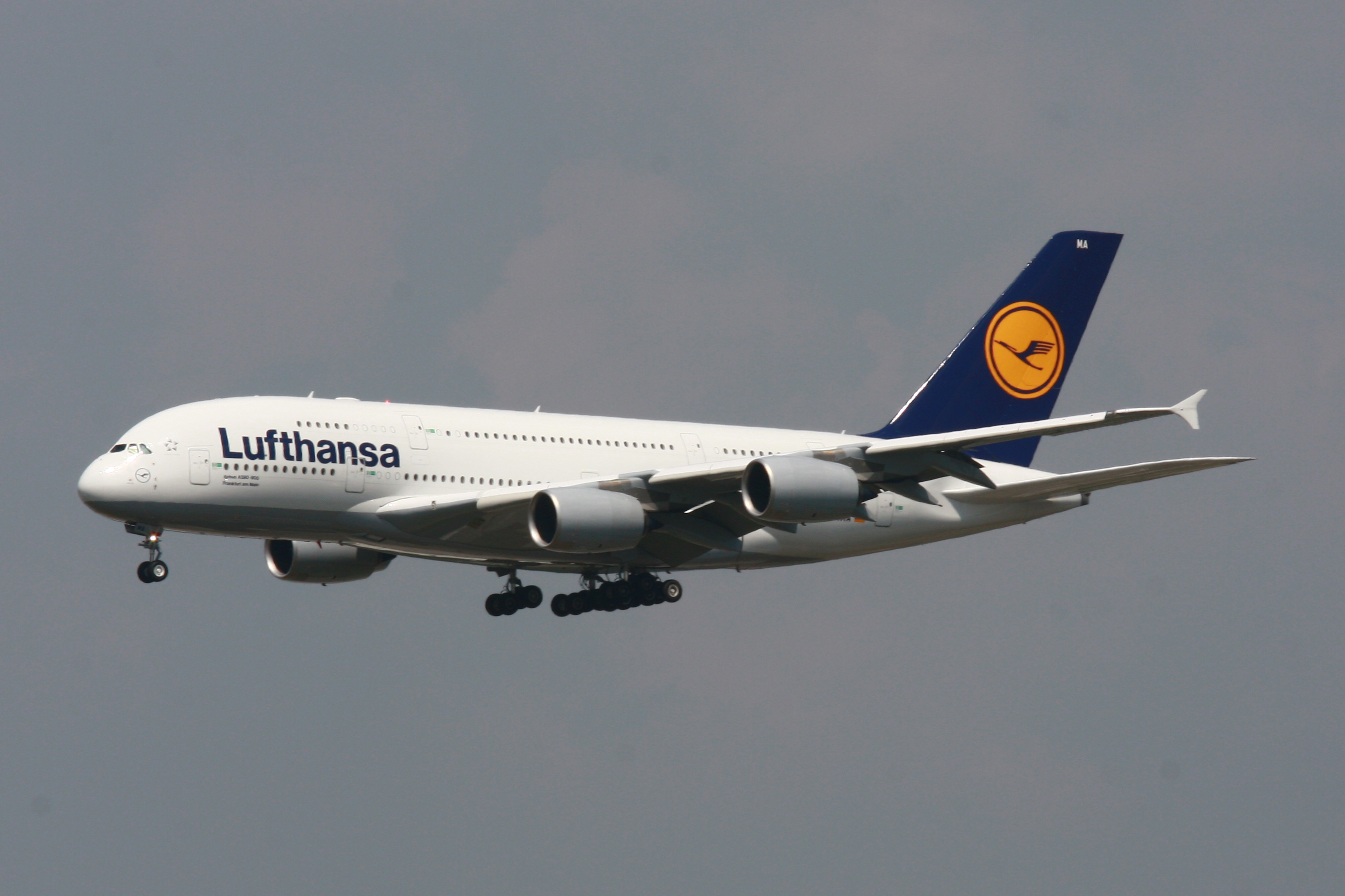 Lufthansa's first Airbus A380 landing at Frankfurt Airport